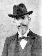 Spanish writer, historian and jurist Rafael Altamira (1866-1951)